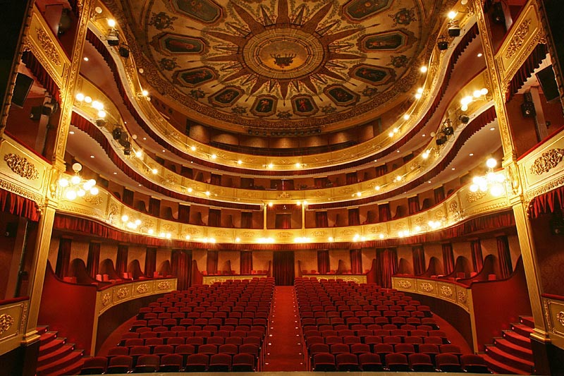 Stalls of the Municipal Theater of Girona